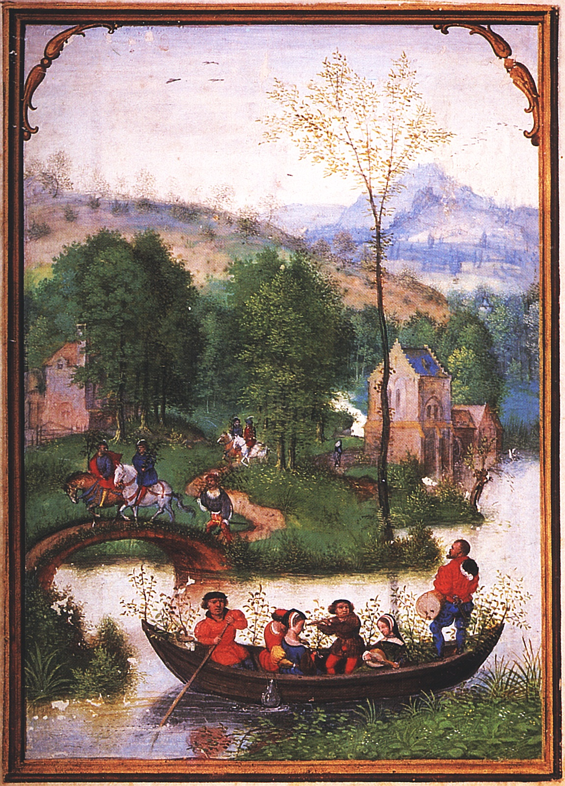 Labors of the Months: May, from a Flemish Book of Hours (Bruges)